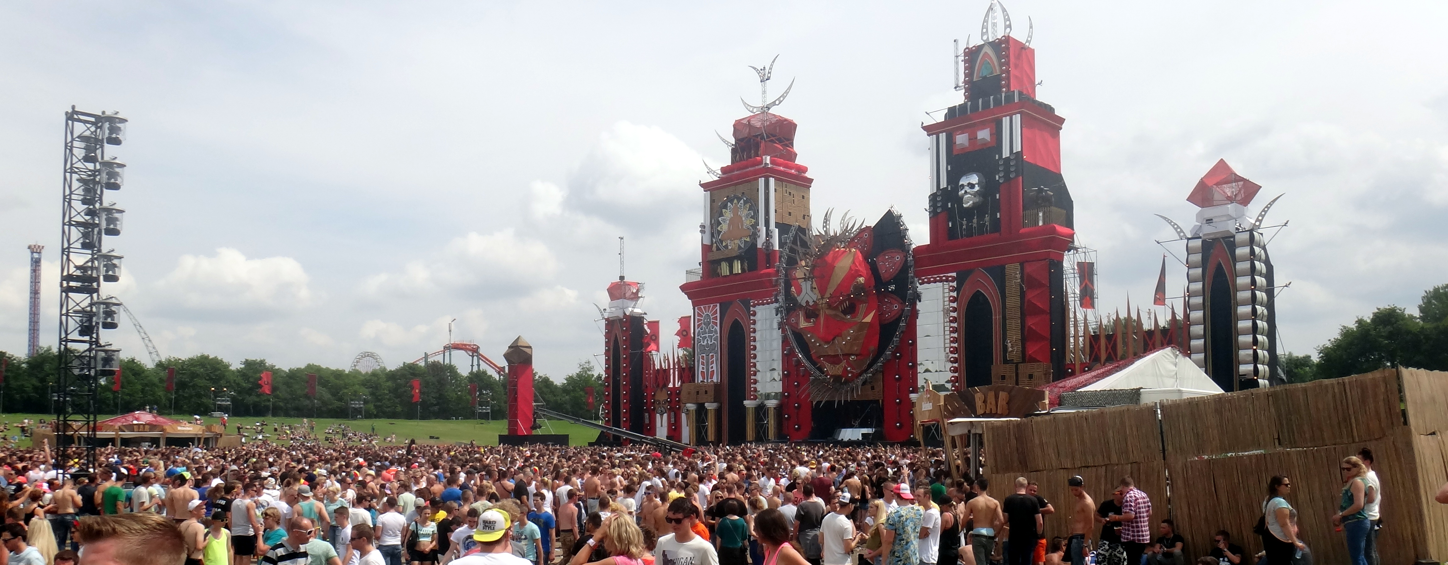 The Red stage and some audience at Defqon.1 2014.